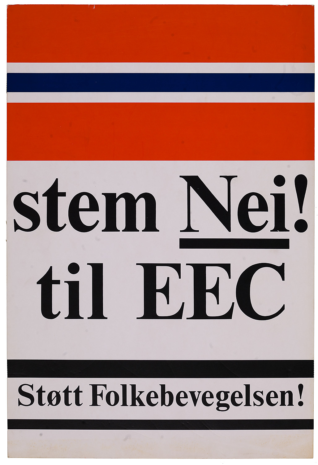 Image from National Archives of Norway's Flickr-Album "Protest" (all images marked with "No known copyright restrictions")